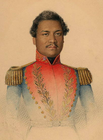 "Portrait (Front) of King Kamehameha III of Hawaii in Military Uniform 1842 Drawing" Kamehameha III (born Kauikeaouli), (August 11, 1813–December 15, 1854) was the King of Hawaii from 1824 to 1854.